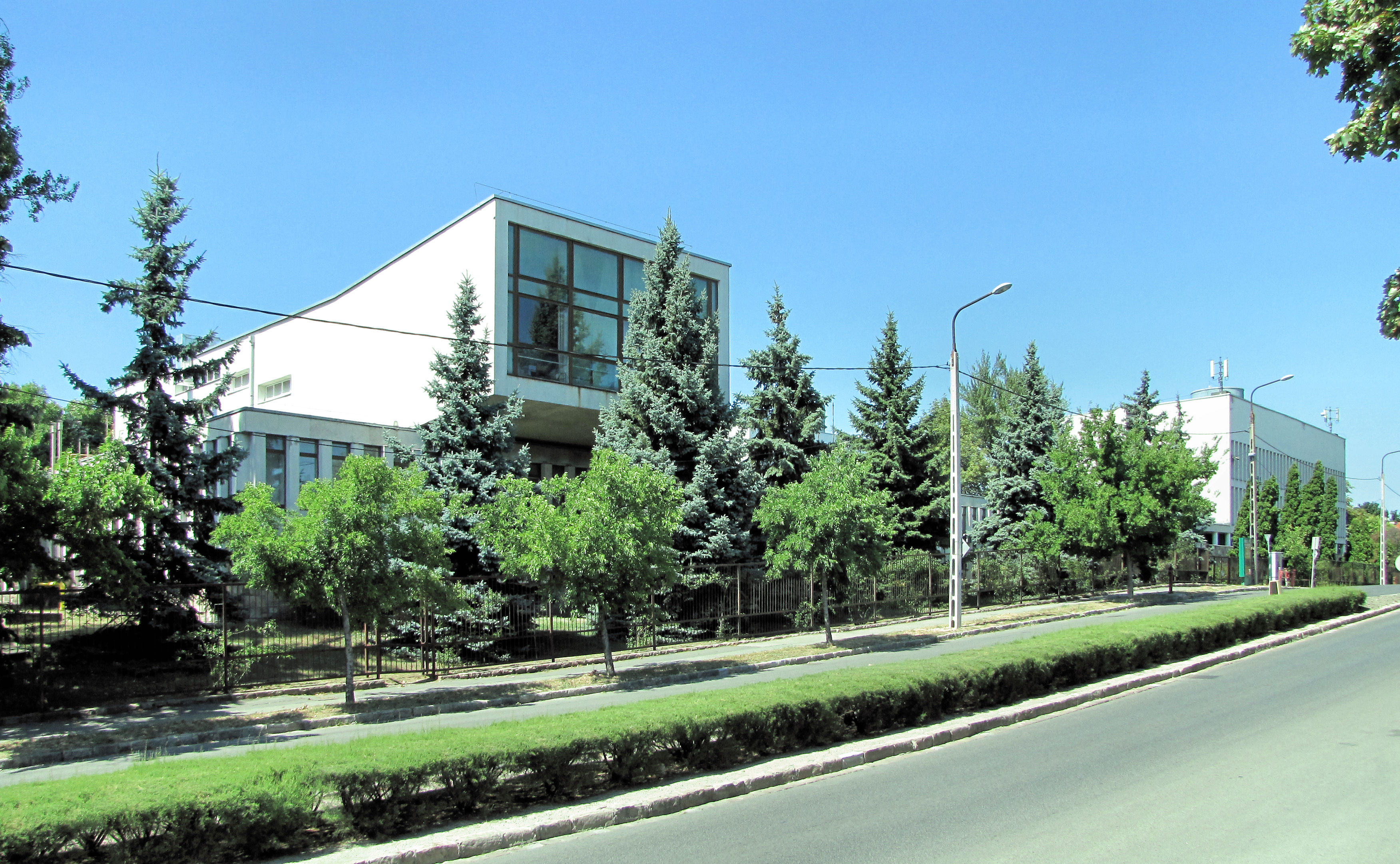 Institute of Chemical Research of the Hungarian Academy of Sciences, Budapest. Architect: László Hóka, 1960ies.